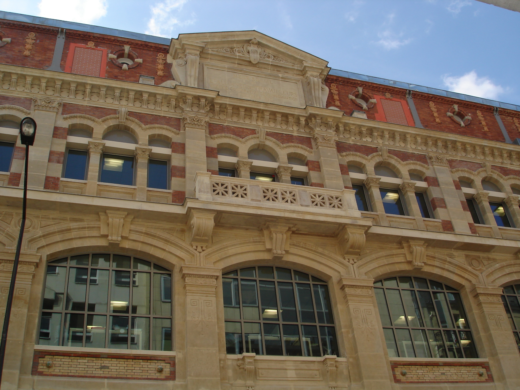 Old building of the "Alliance des Travailleurs", a worker cooperative, located at Levallois Perret, suburb of Paris